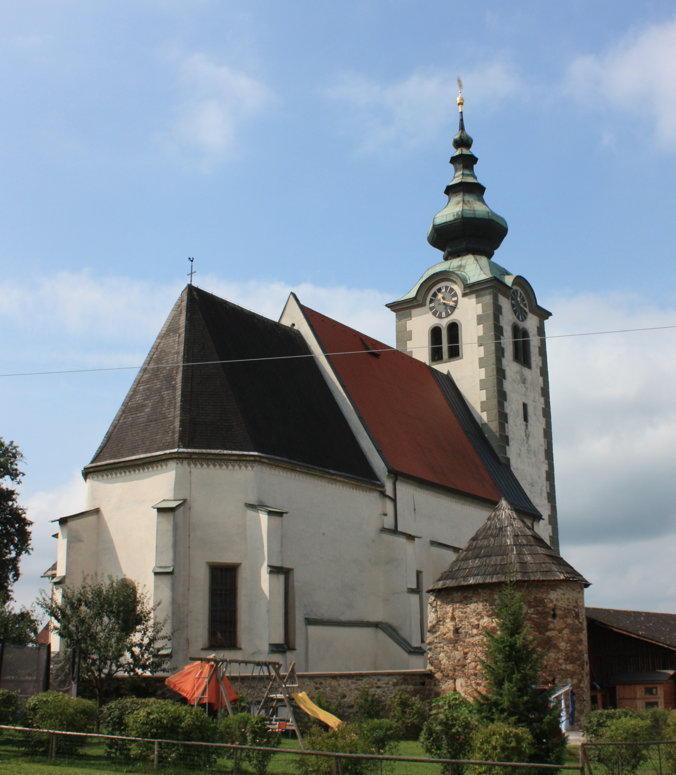 Parish church "Assumption of Mary" Locality: Maria Rojach Community:Sankt Andrä